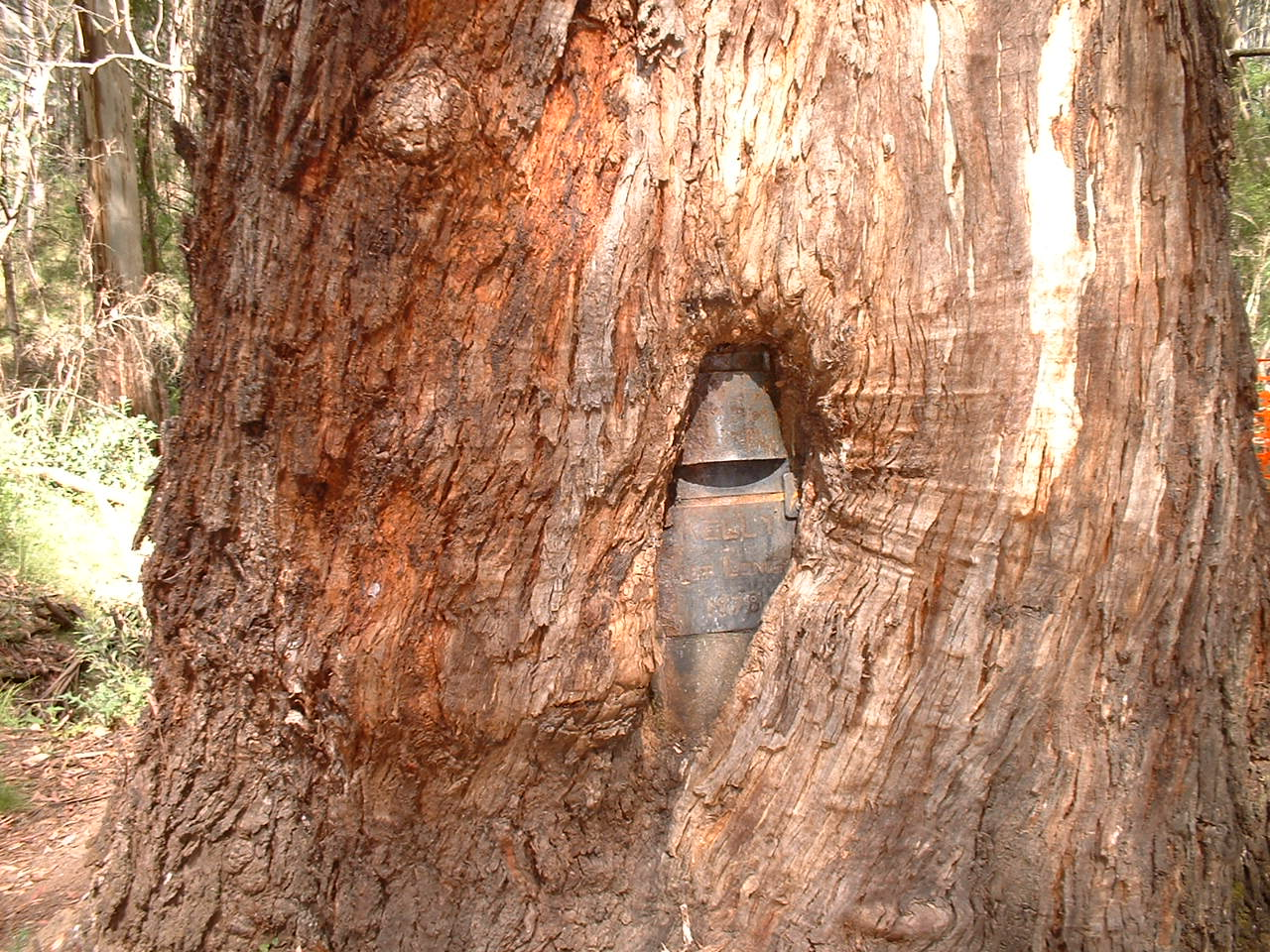 The Kelly Tree, which marks the site near Tolmie, Victoria, Australia, where three policemen were murdered in 1878 by bushranger Ned Kelly